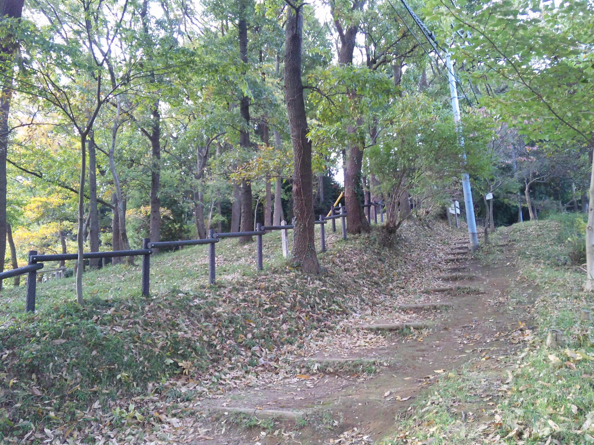 yokohama shimonagaya Forest